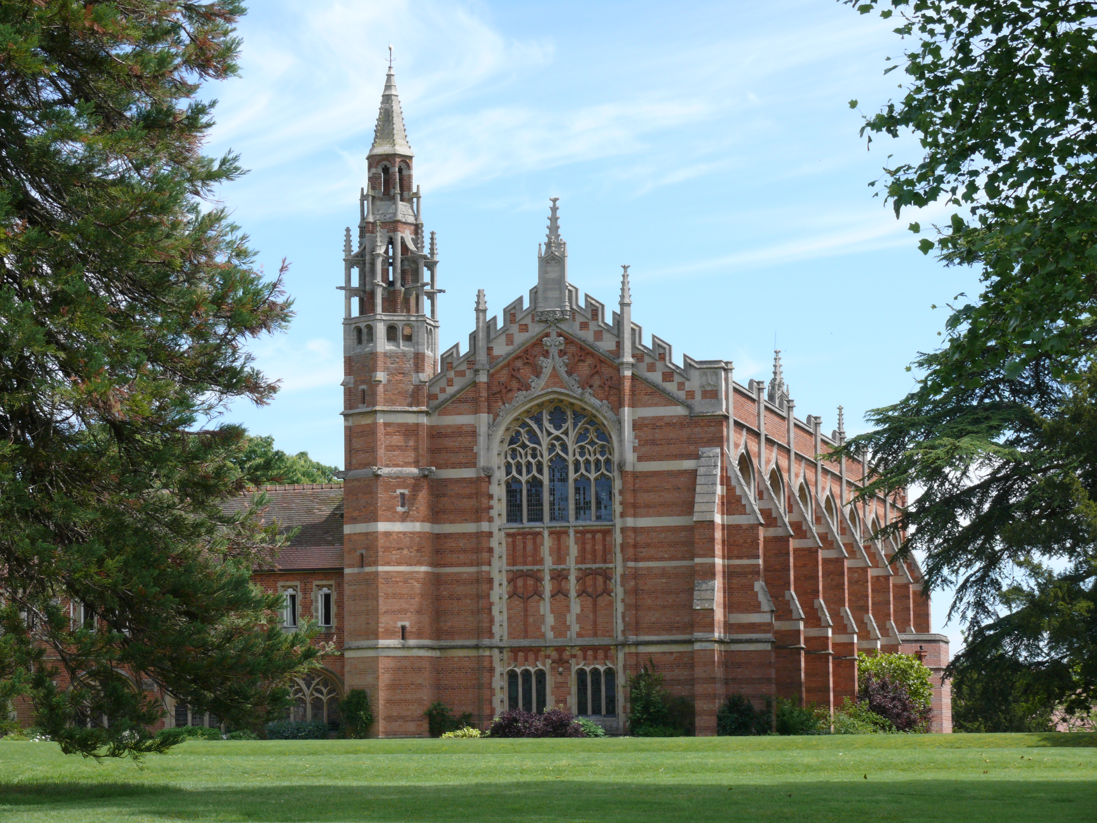 The Chapel at Radley College, Oxfordshire (formerly Berkshire), seen from the west